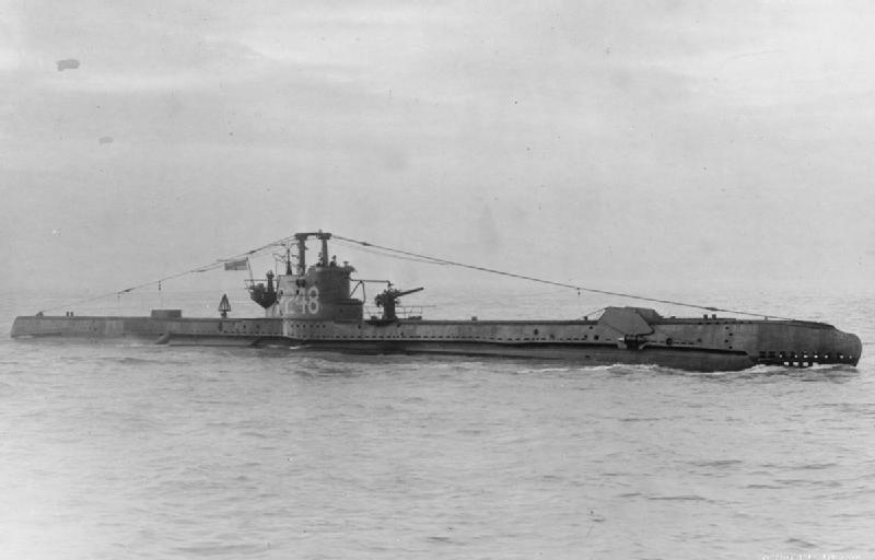 British S class submarine HMSM STURDY underway.